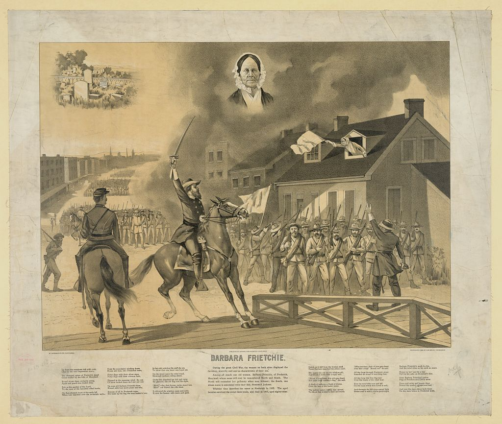 Illustration of "Barbara Frietchie" by John Greenleaf Whittier (1807-1892) with inset portrait of American Civil War patriot Barbara Fritchie (1776-1862), on whose story the poem is based, and a picture of her grave. "'Shoot, if you must, this old gray head, / But spare your country's flag,' she said."